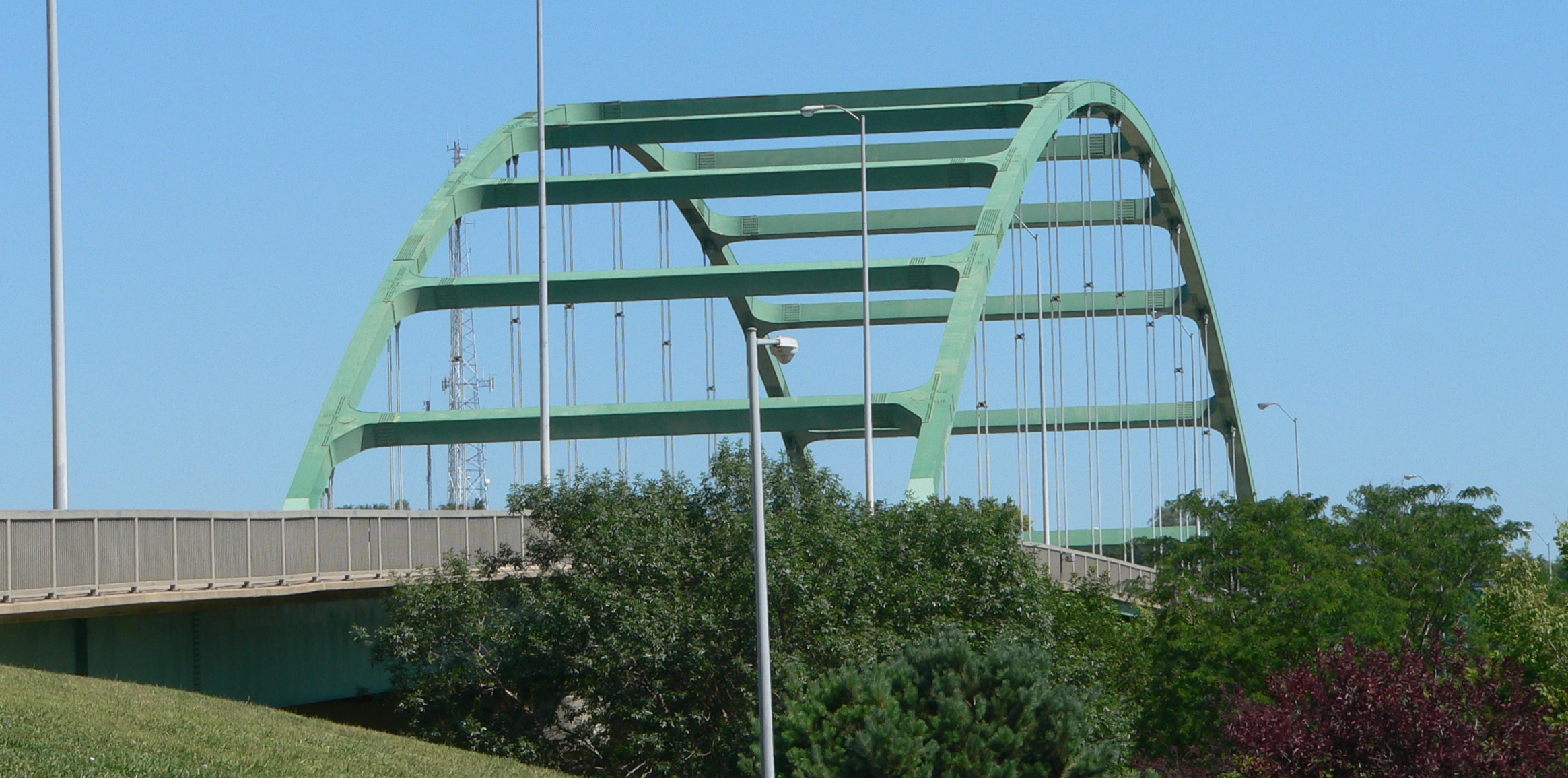 Siouxland Veterans Memorial Bridge, carrying U.S. Highway 77 across the Missouri River from South Sioux City, Nebraska to Sioux City, Iowa. The photo was taken from the Nebraska side; downstream is to the right.